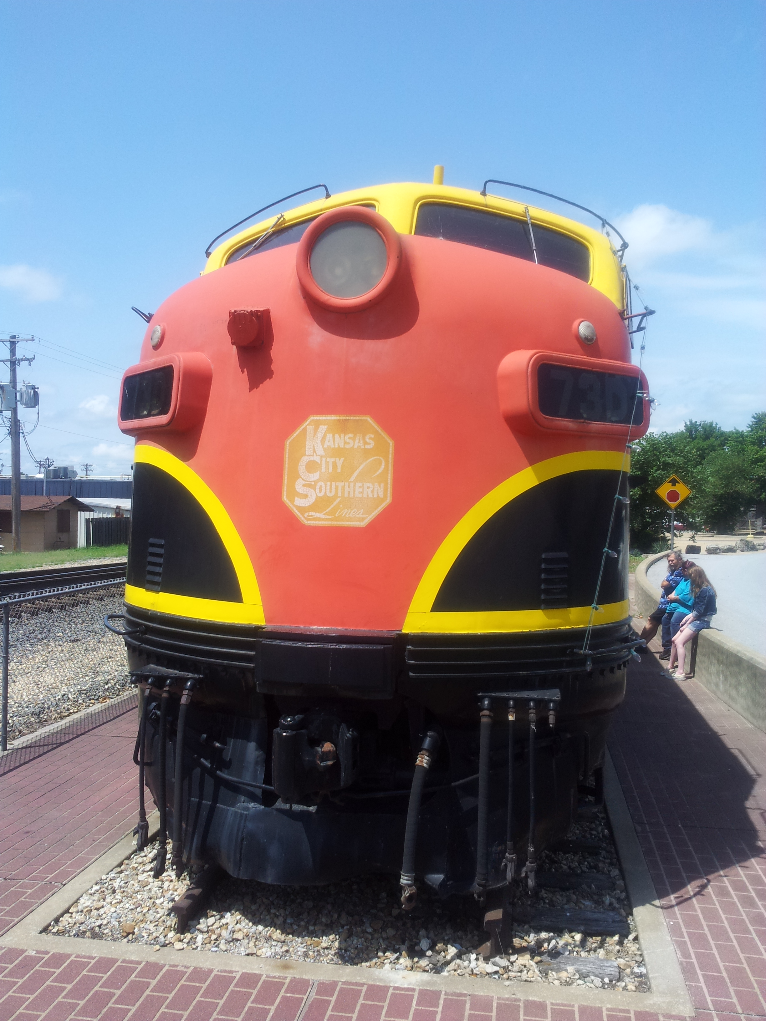 Kansas City Southern #73D, currently on display at the depot on Arkansas highway 59 in Decatur, AR. This locomotive was converted to a slug unit in the 1970s. It was purchased by Peterson Farms in 1991 and restored for display.